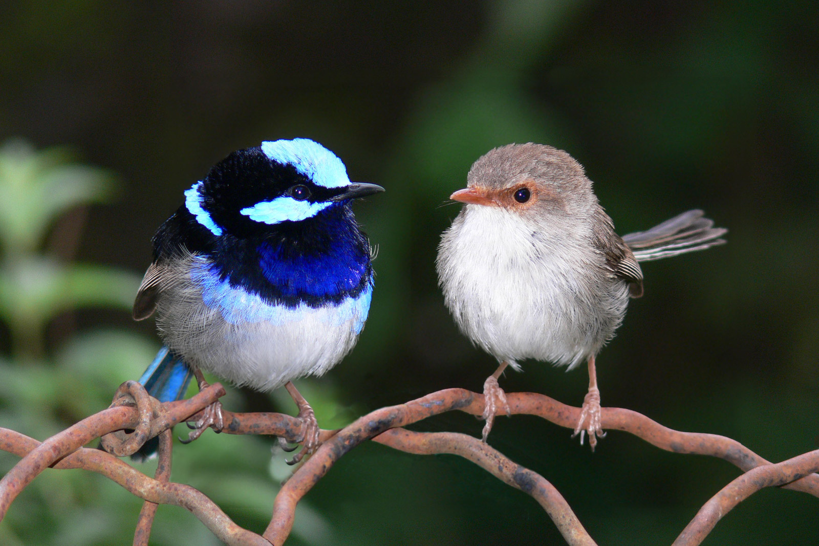 Male and Female Superb Fairy-Wren.Taken in Ensay, Victoria.